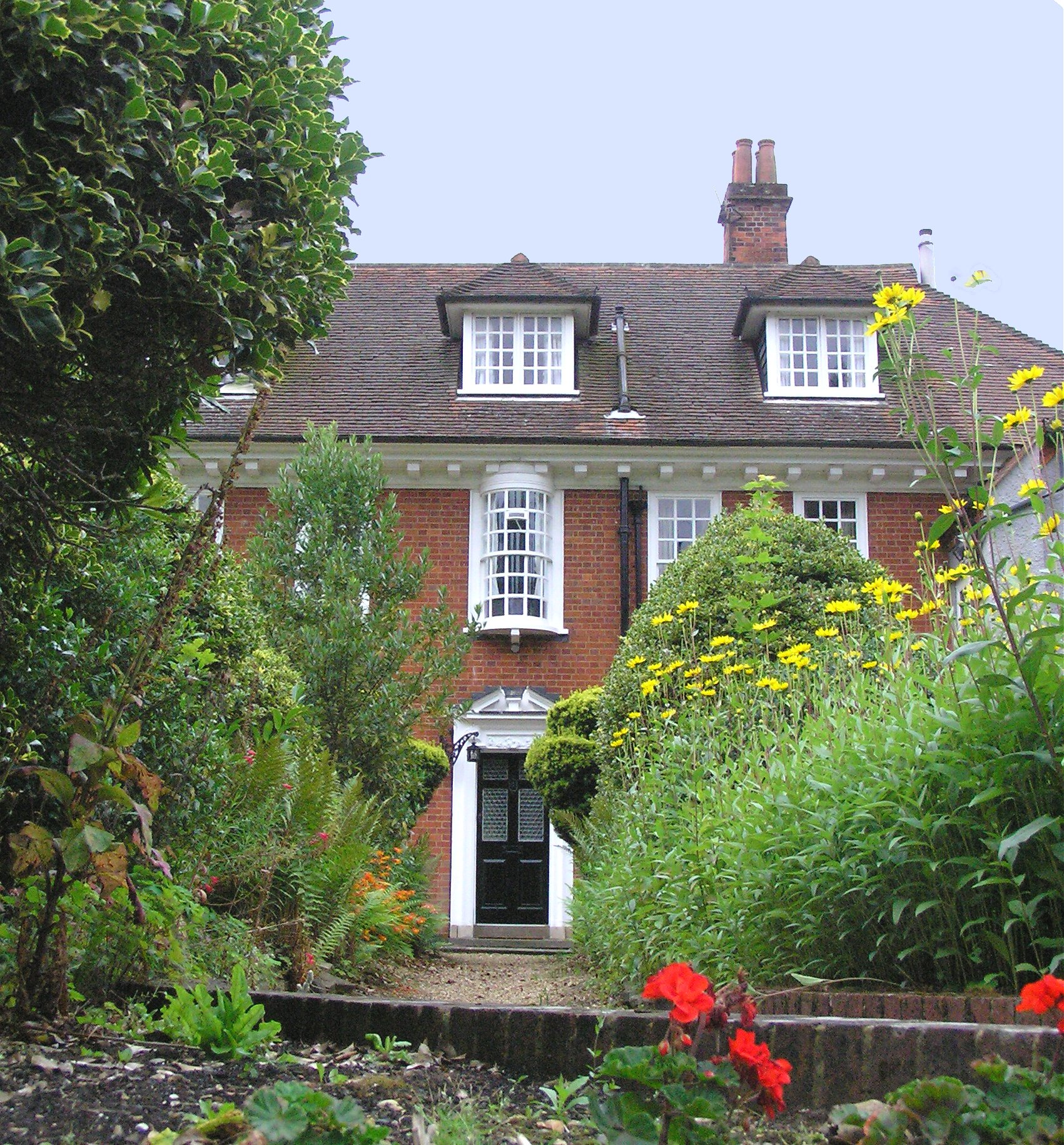 Stranger's Corner - architect: Harold Falkner; home of W. H. Allen